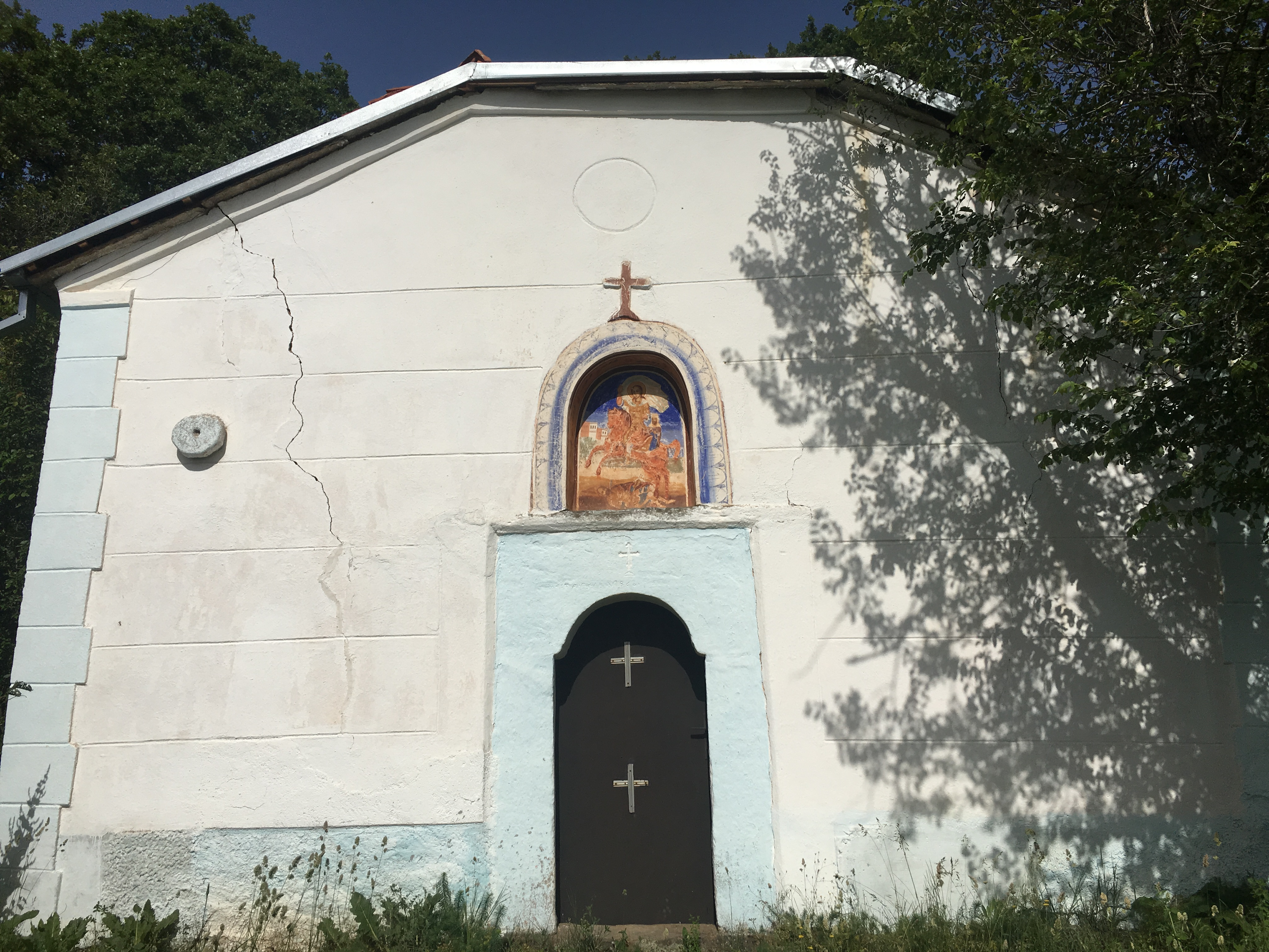 St. Demetrius Church in the village of Puturus